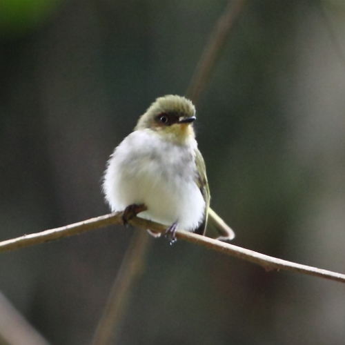 Bay-ringed Tyrannulet at Intervales State Park - Ribeirão Grande - SP - Brazil